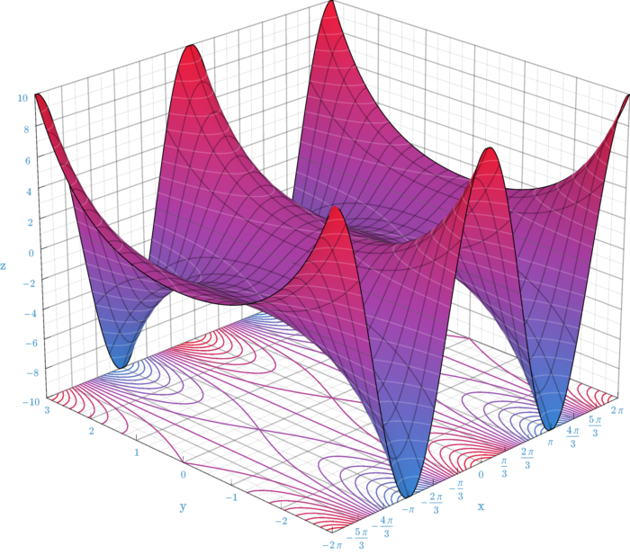 Graph of z = Re(cos(x+iy)), selfmade with MuPad